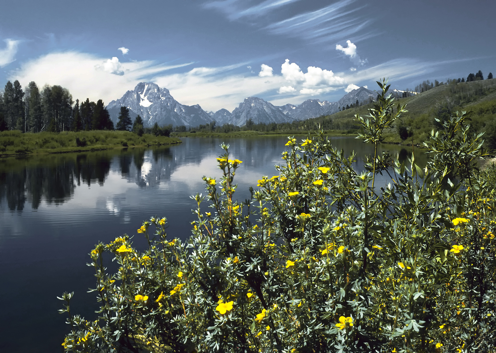 Oxbow Bend outlook in the Grand Teton National Park. View over the Snake River to the Mount Moran with the Skillet Glacier (12605 ft), Bivouac Peak (10825 ft) and Eagles Rest Peak (11258 ft) in the Teton Range, Wyoming, United States.